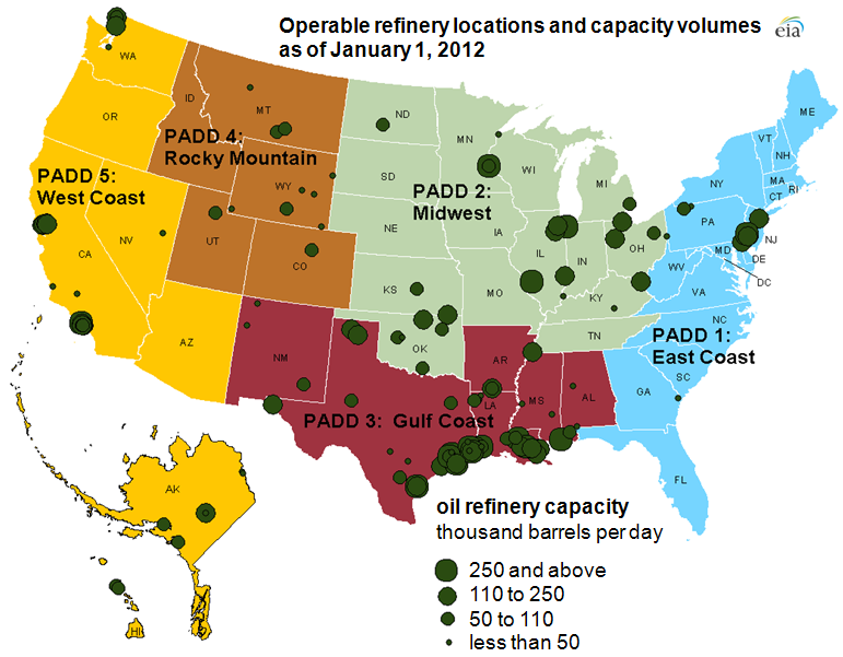 Map showing locations and capacities of petroleum refineries in the US, as of 2012